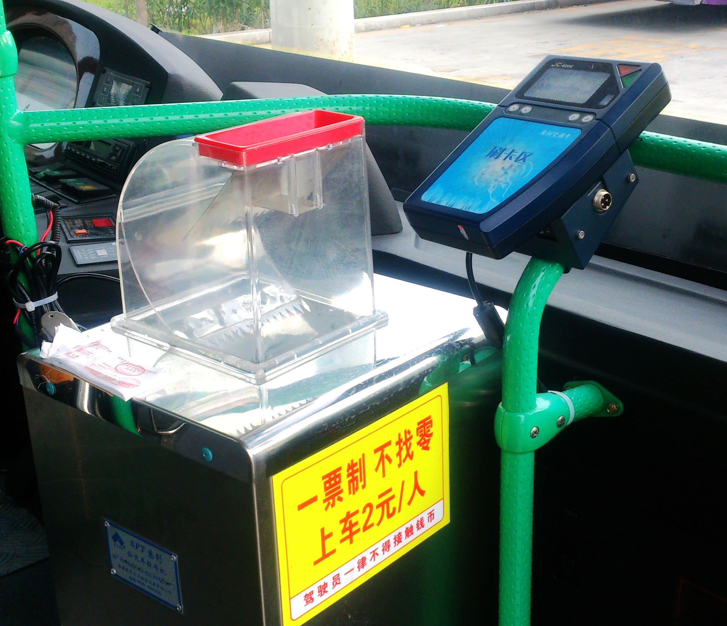 A fare box on a Chinese bus.